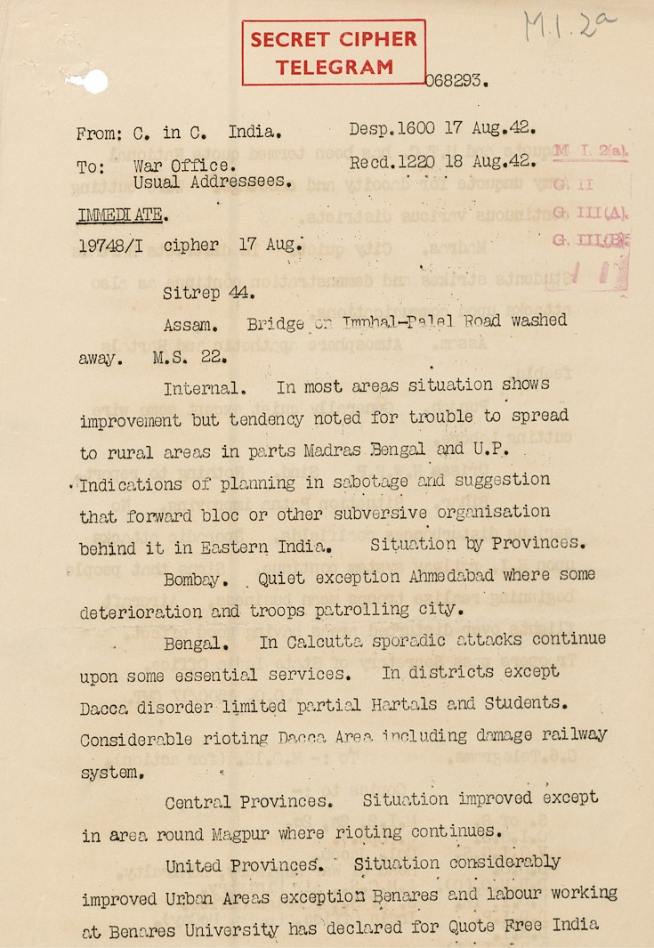 Secret Cipher Telegram from the C. in C India to the UK War Office dated 17 August 1942, describing the civil unrest in wake of the Quit India Resolution, August 9, 1942